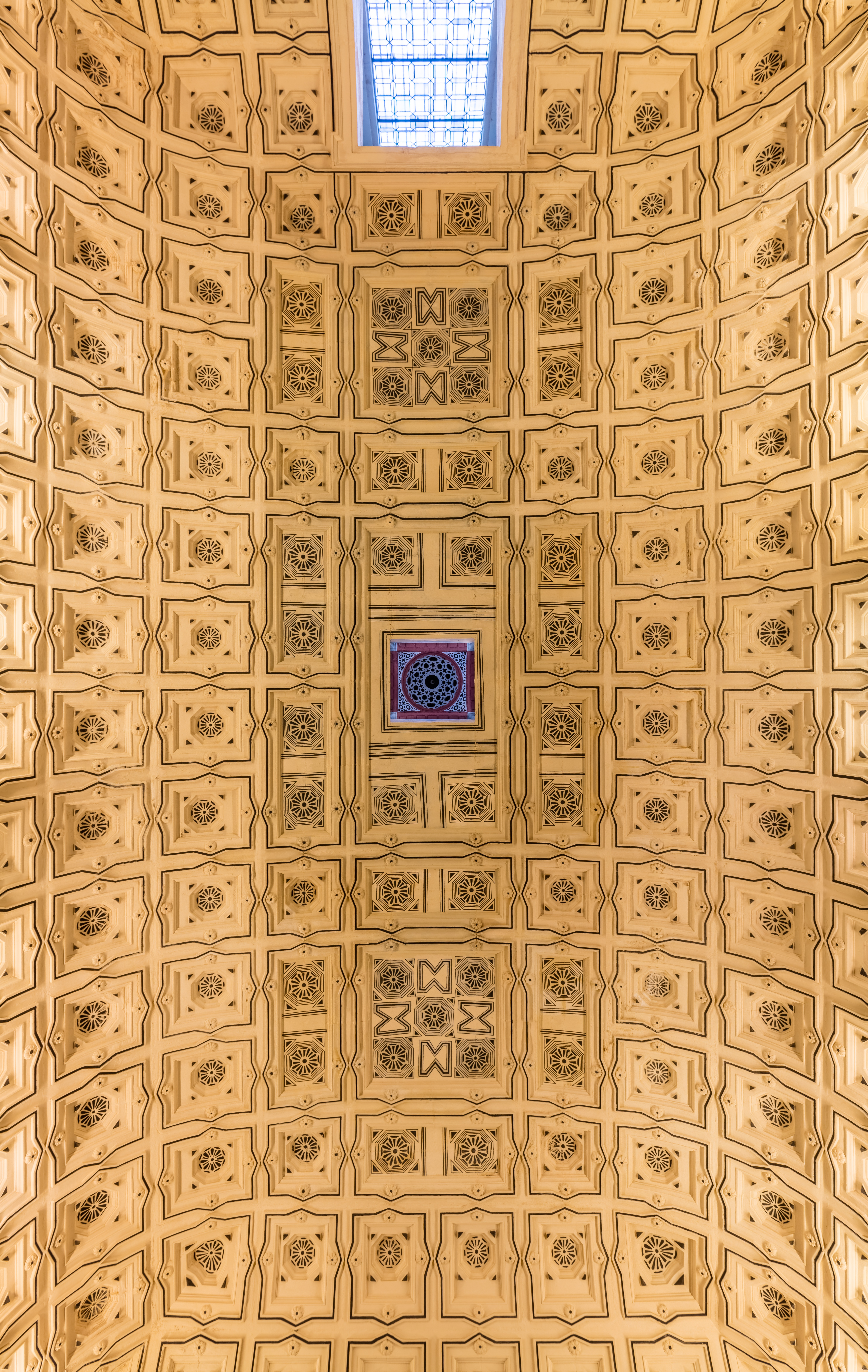 Antechamber, Cathedral of Seville, Seville, Spain